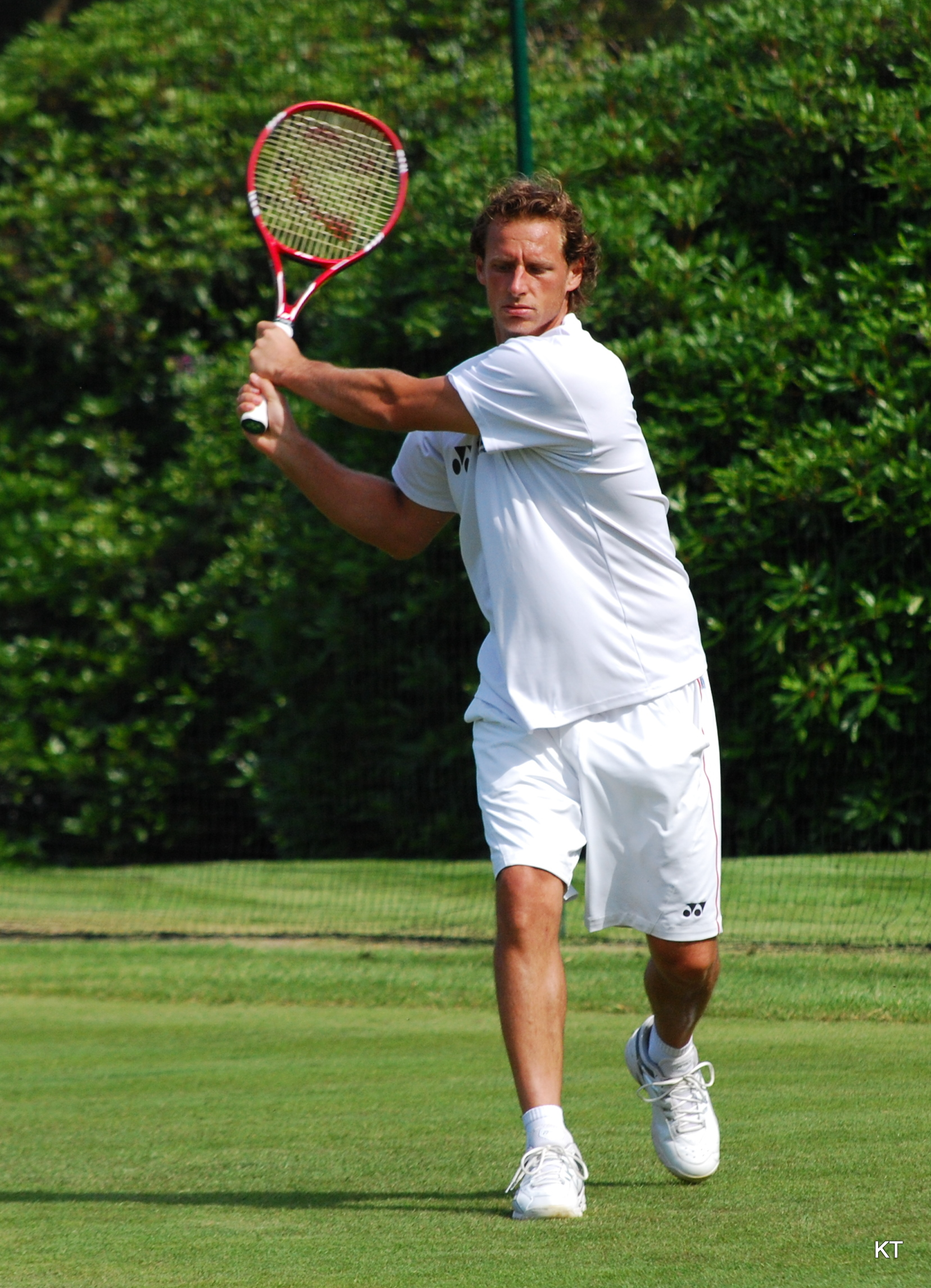 The Boodles, Stoke Park, 2011.